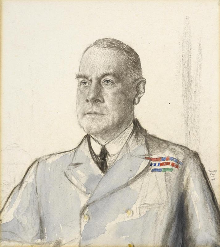 Vice-admiral Sir Cecil Fiennes Thursby, Kcb, Kcmg image: a head and shoulders portrait of Vice Admiral Sir Cecil Fiennes Thursby in uniform, looking slightly to the left.